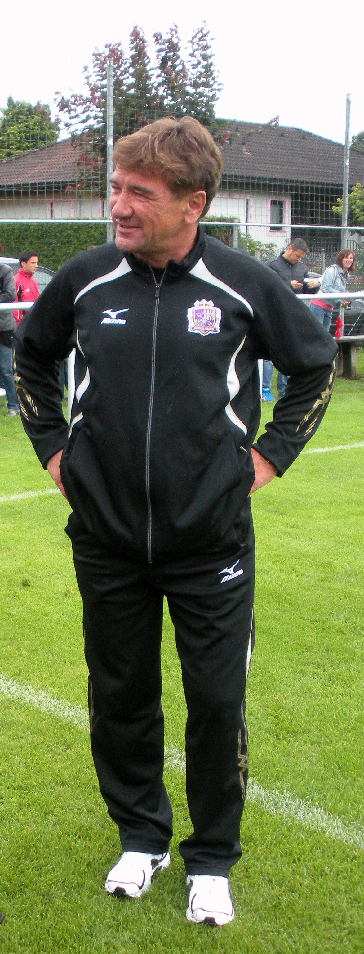 Hiroshima-manager Michael Petrovic after the international pre-season friendly Sanfrecce Hiroshima (Japan) vs Kapfenberger SV from Austria on 20 June 2010 at the football ground of LAC-Linden in Leibnitz (Styria / Austria)